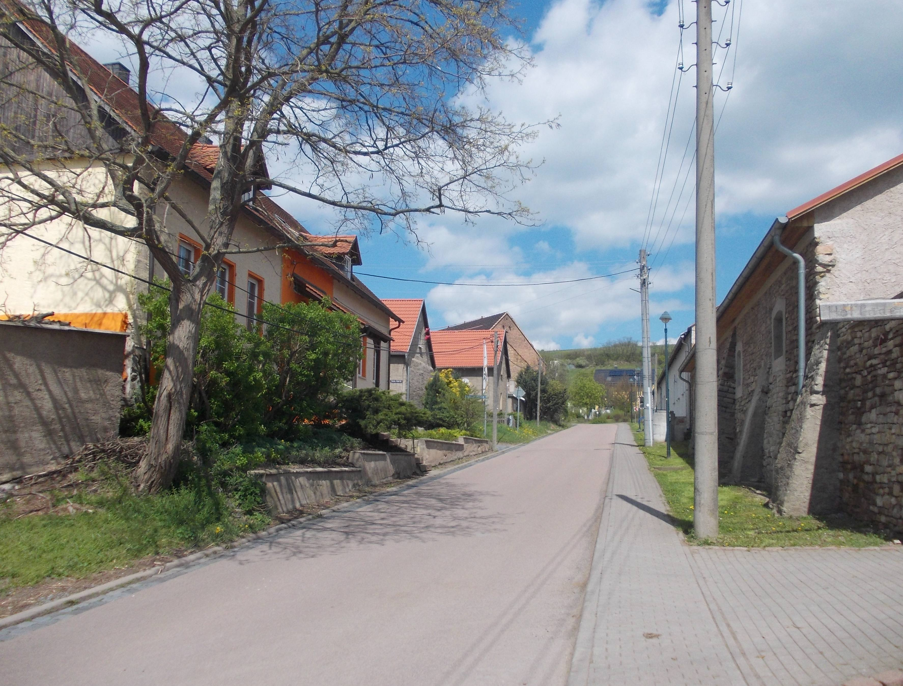 Unterrissdorfer Strasse in Wormsleben (Seegebiet Mansfelder Land, Mansfeld-Südharz district, Saxony-Anhalt)